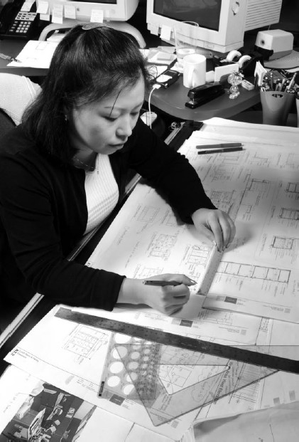 Drafter at work : Drafters pay careful attention to detail in their technical drawings.